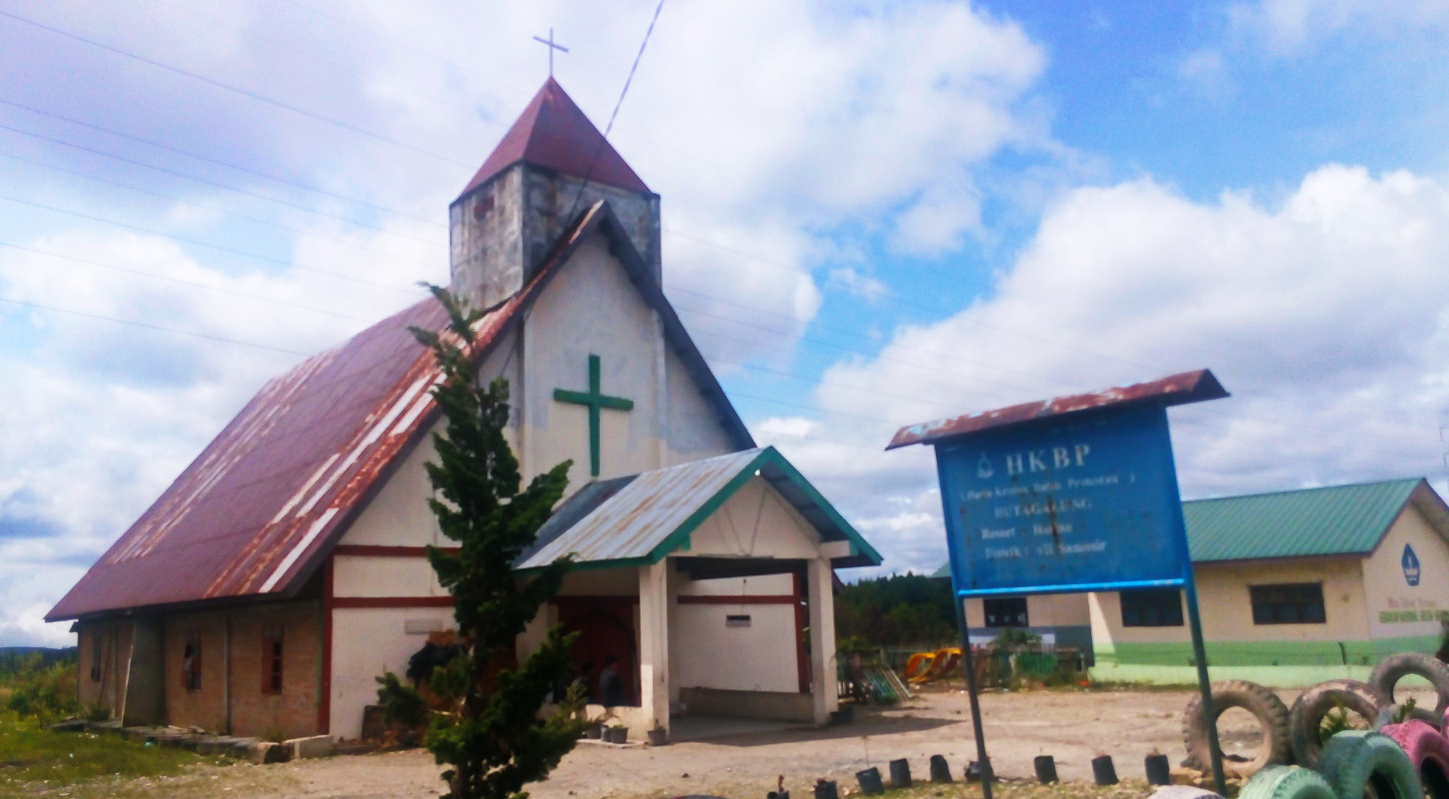 HKBP Hutagalung , Church in Hutagalung, Harian, Samosir